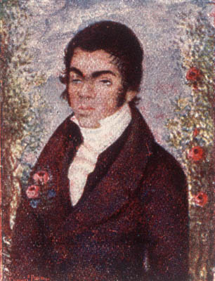 António Feliciano de Castilho (1800-1875), age 26.